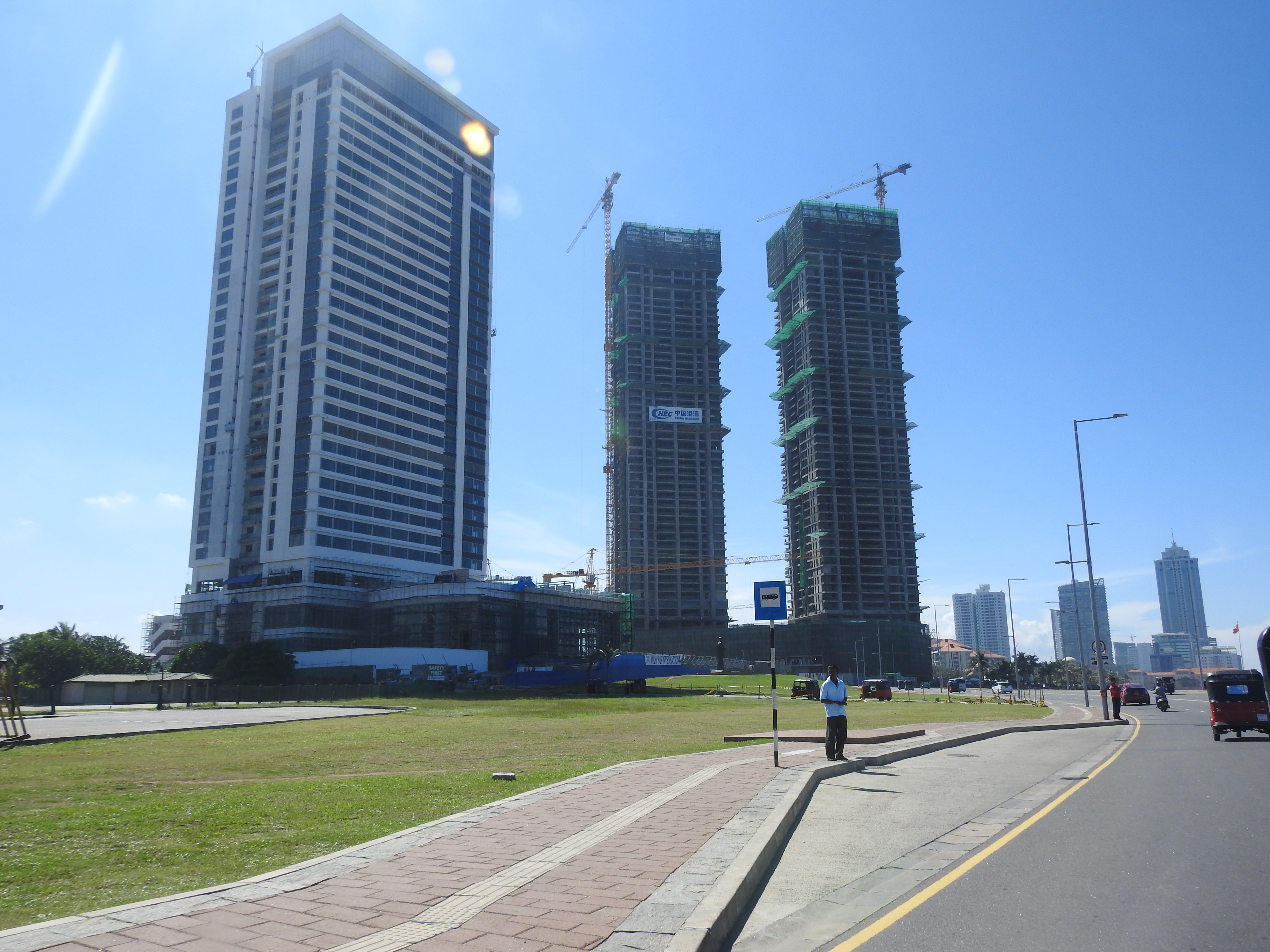 Photos of current/future skyscrapers (and its surroundings) in Colombo, taken by User:Rehman and User:Azeez as part of a photowalk project by Wikimedia Community User Group Sri Lanka. The photowalk covered most of the tallest structures in Colombo that are either completed or under construction. Further information on the subject(s) of the photograph can be found in the category/ies of this file.